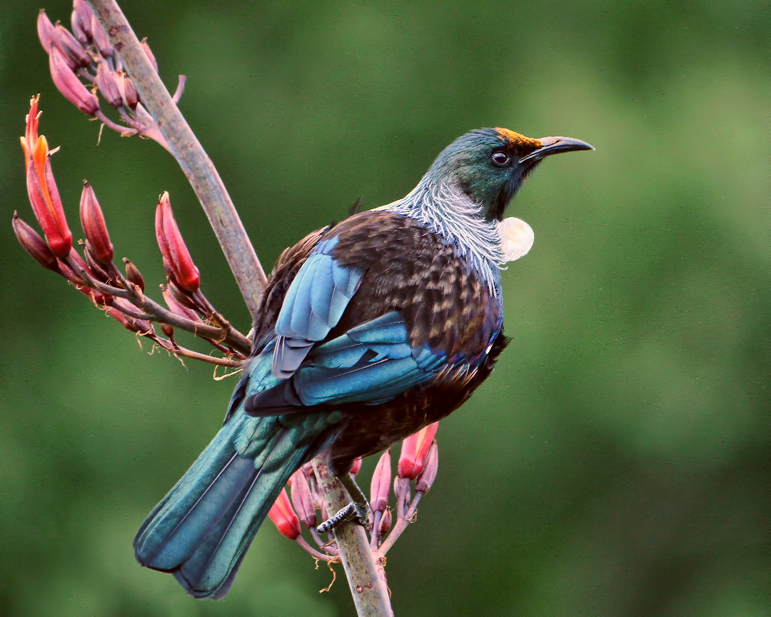 A Tui in Waikawa, Marlborough, New Zealand. Māori: Ko tētahi tūī i a Waikawa i a Malborough i a Aotearoa.